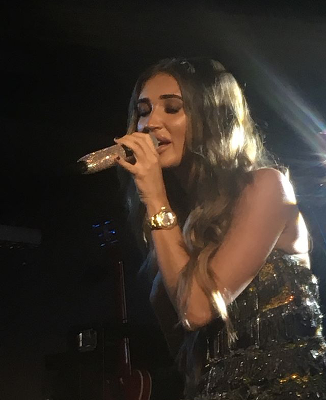 Megan McKenna performing in Derby, December 2017.